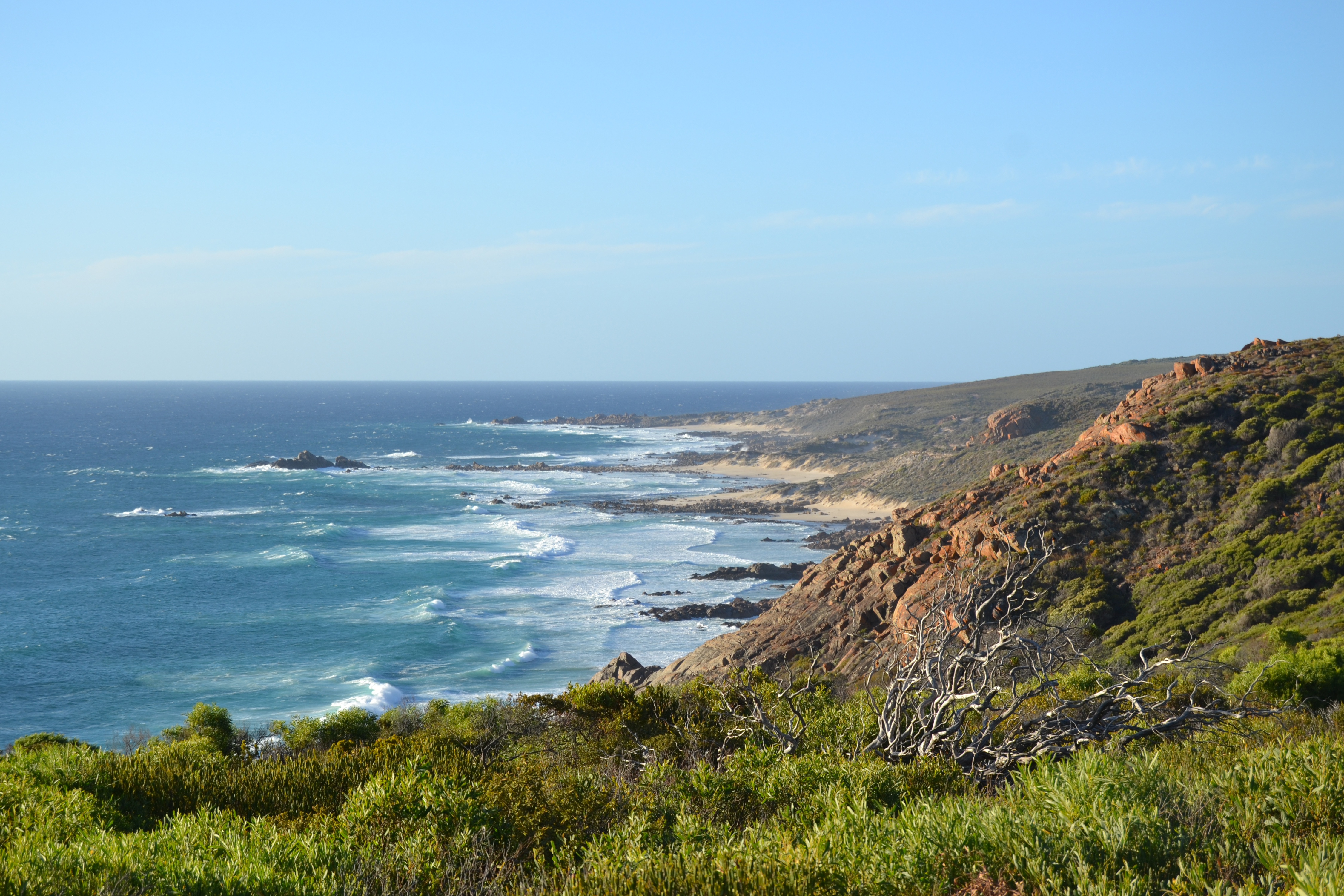 Picture of Cape Naturaliste, WA